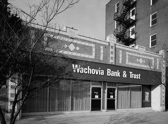 Madison Building — in the Statesville Commercial Historic District, between 125 & 145 East Broad Street, Statesville (Iredell County, North Carolina). 1982 photo from the Historic American Buildings Survey images of North Carolina (cropped).